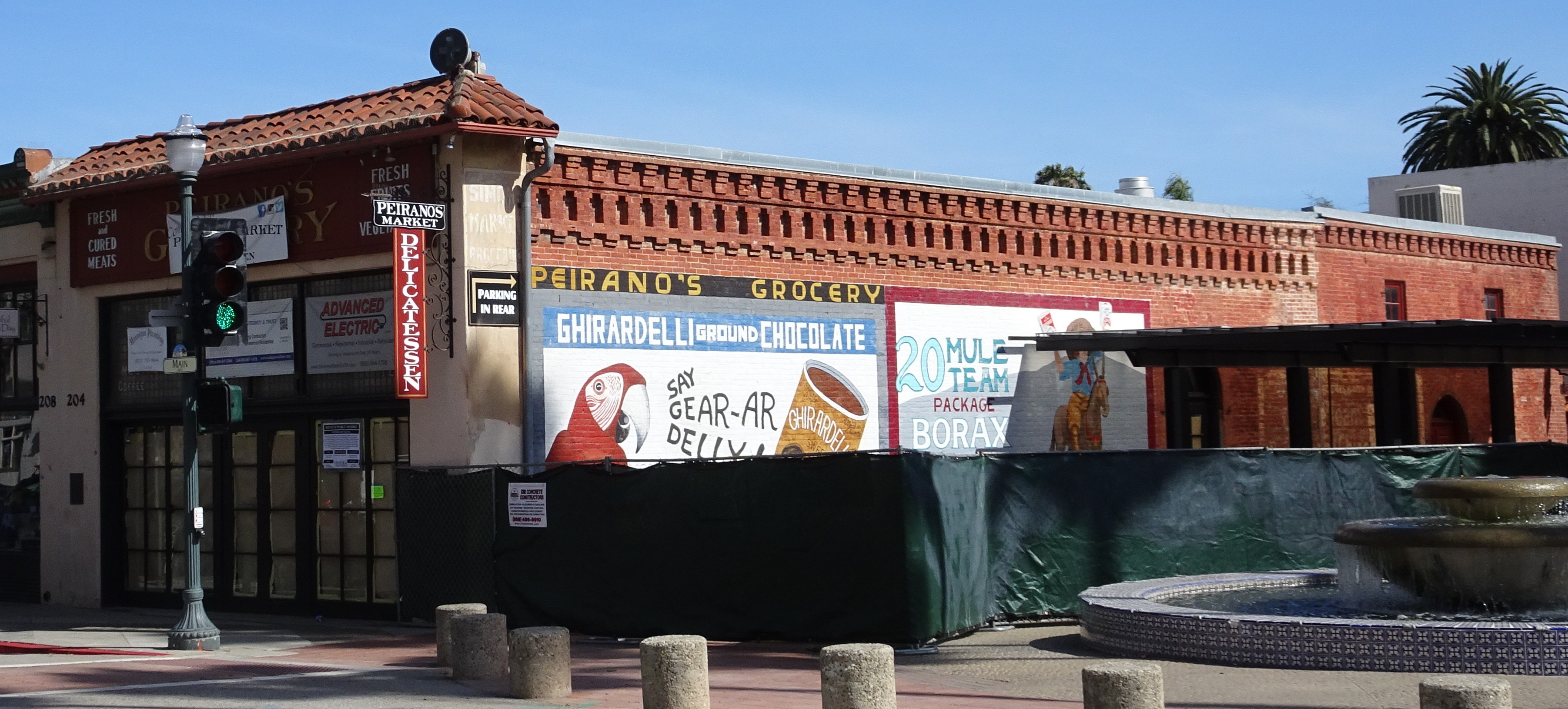 Peirano Store, 204 E. Main Street, Ventura, California (Ventura Historic Landmark No. 32)